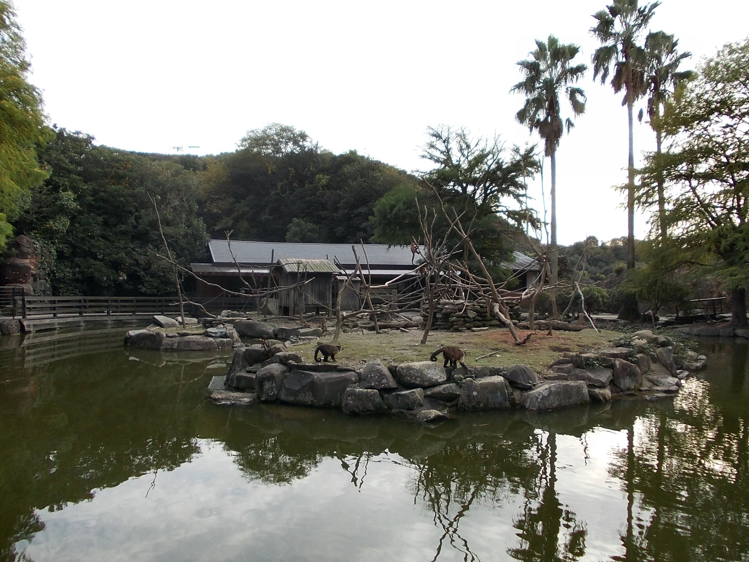 Nagasaki Bio Park Pond of capybaras and Islet of capuchins